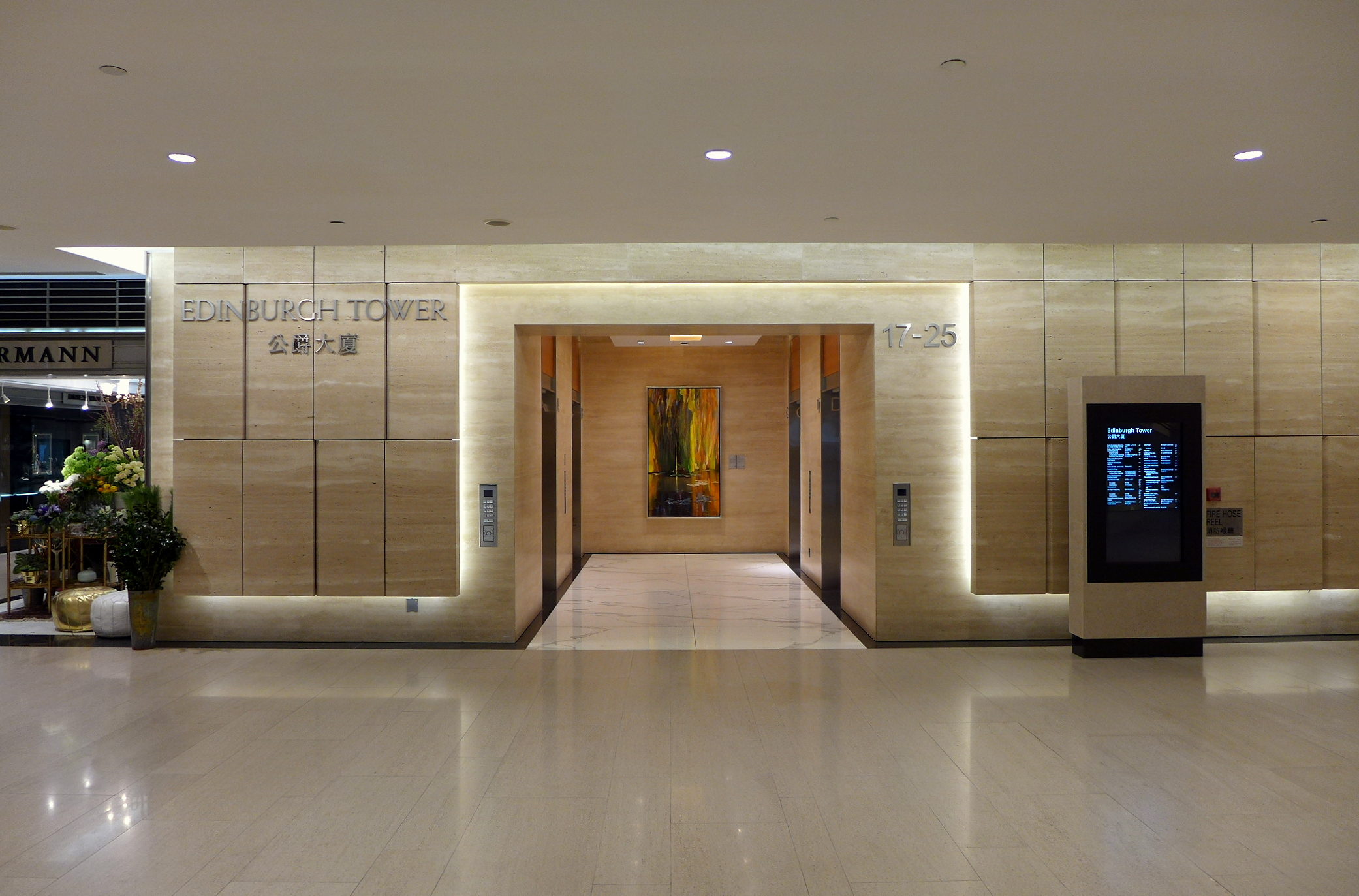 Edinburgh Tower Lobby, The Landmark